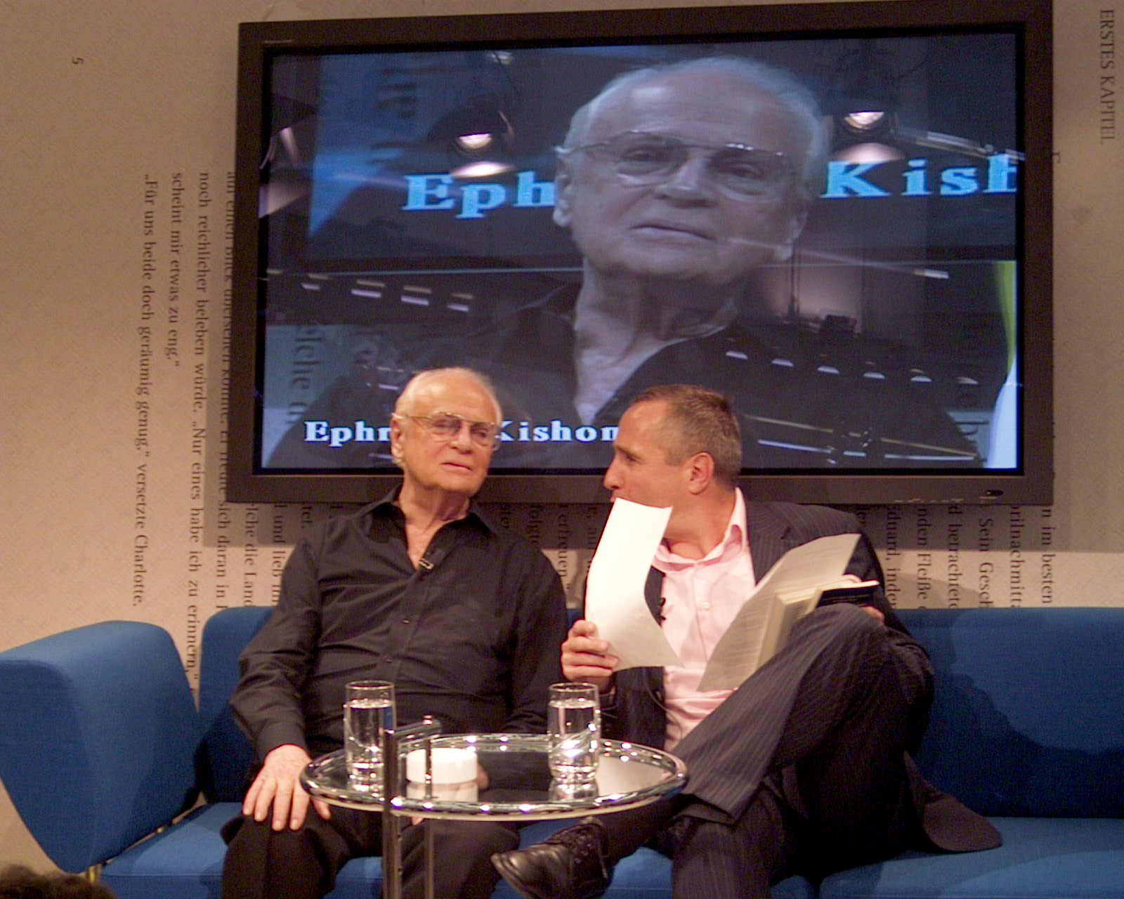 Ephraim Kishon, being interviewed by Klaus Urban